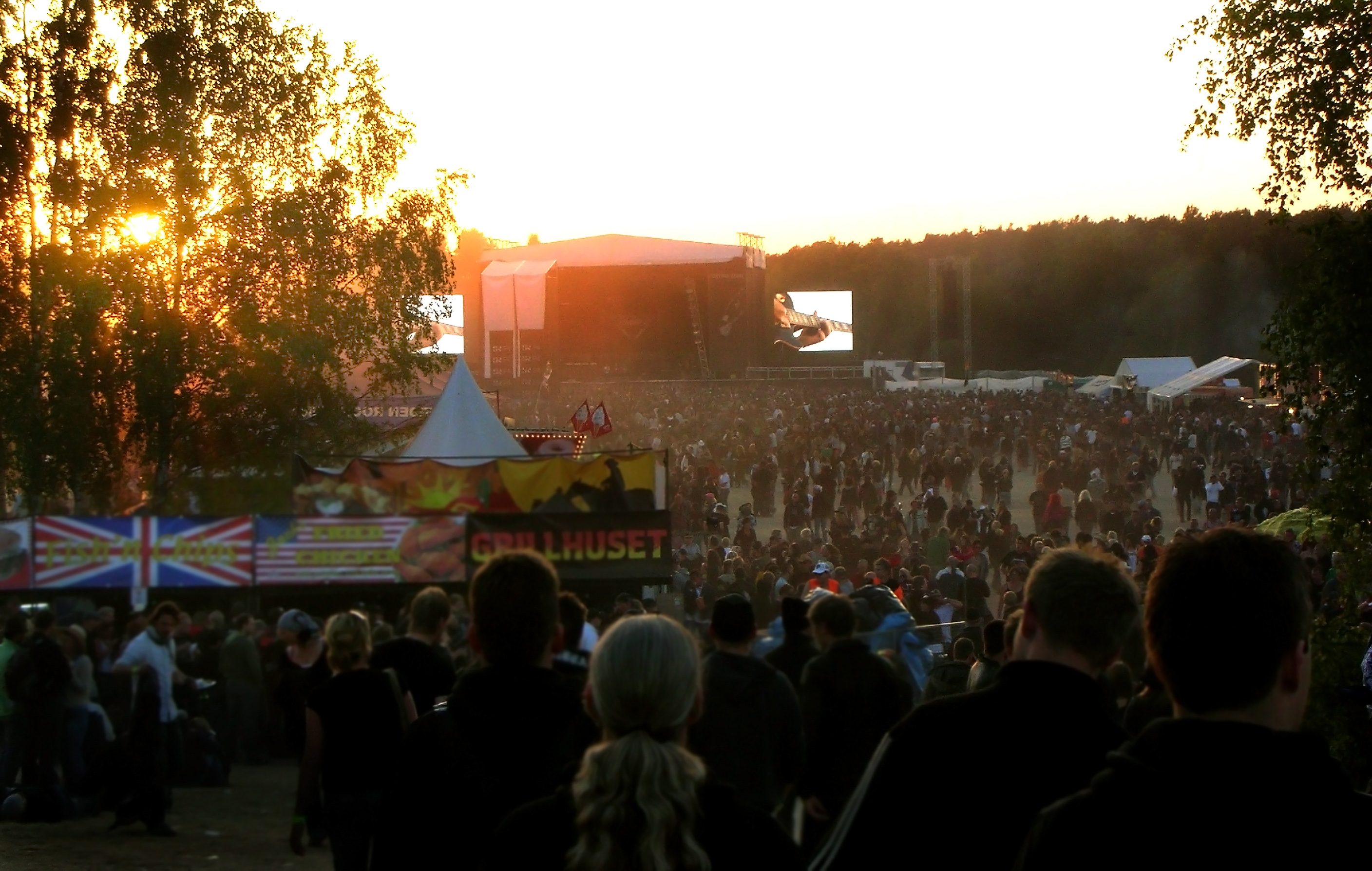 Sun setting at the Sweden Rock Festival. Canadian metal band Triumph are performing at the main stage in the background.